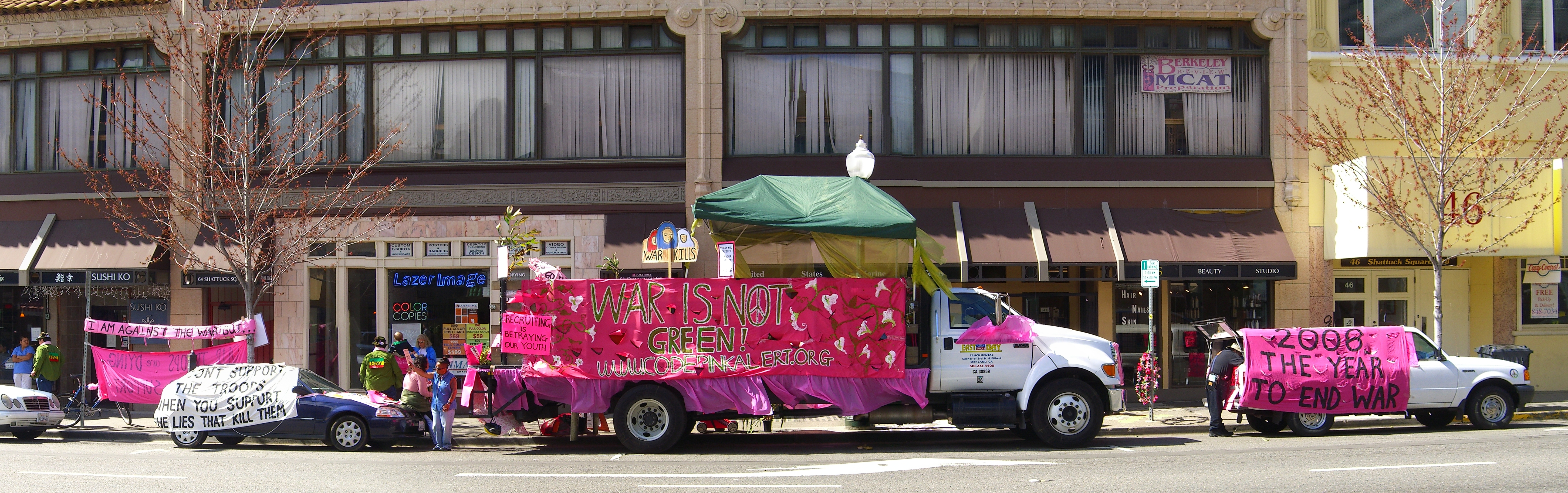 Code Pink demonstrates in front of a Marine recruiting center in Berkeley, California, as part of the Berkeley Marine Corps Recruiting Center controversy. The truck is called 'the green zone' and is filled with potted plants. It has been parked at the site since March 10, 2008 and will remain there until March 19, 2008, the anniversary of the War in Iraq. Code Pink protestors have been staying with the truck around the clock since it was parked.[1]